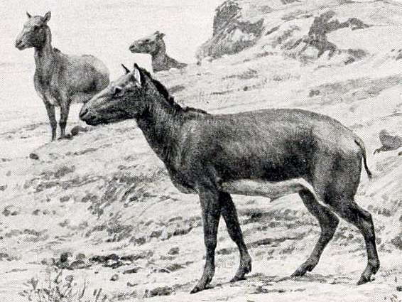 Life restoration of Diadiaphorus majusculus from W.B. Scott's "A History of Land Mammals in the Western Hemisphere." New York: The Macmillan Company.